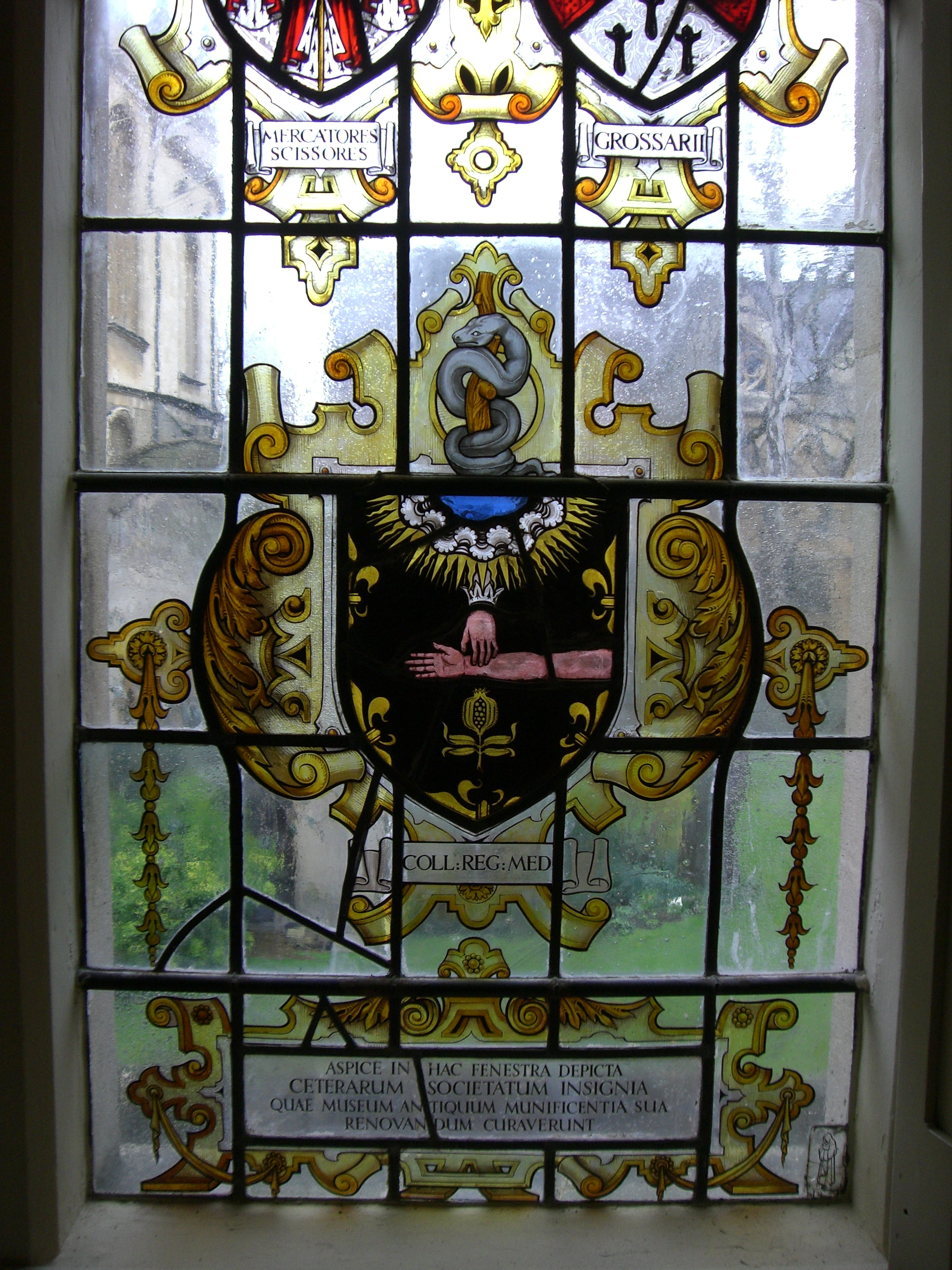 Stained glass window in the Museum of the History of Science, showing the crest of the Royal College of Physicians.